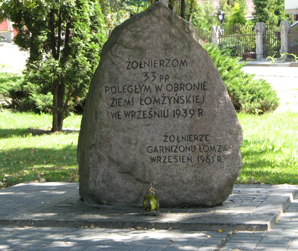 33rd Regiment Infantry monument in PiątnicaAnnotation on the monument: In memory of 33rd Regiment Infantry soldiers who died in defence of Ziemia Łomżyńska on September 1939. Soldiers of Łomża Garrison, September 1961.